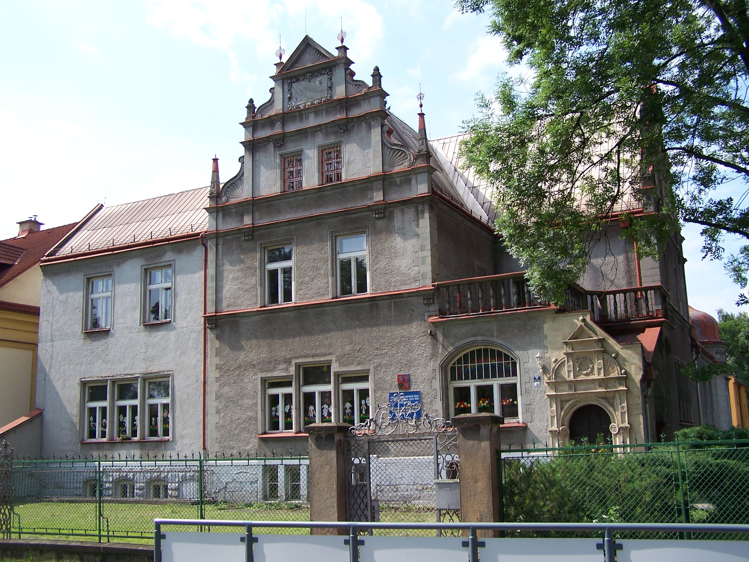 Fulda Villa in Český Těšín (Czeski Cieszyn). The building now serves as a Czech kindergarten. Before World War II it housed the German consulate.